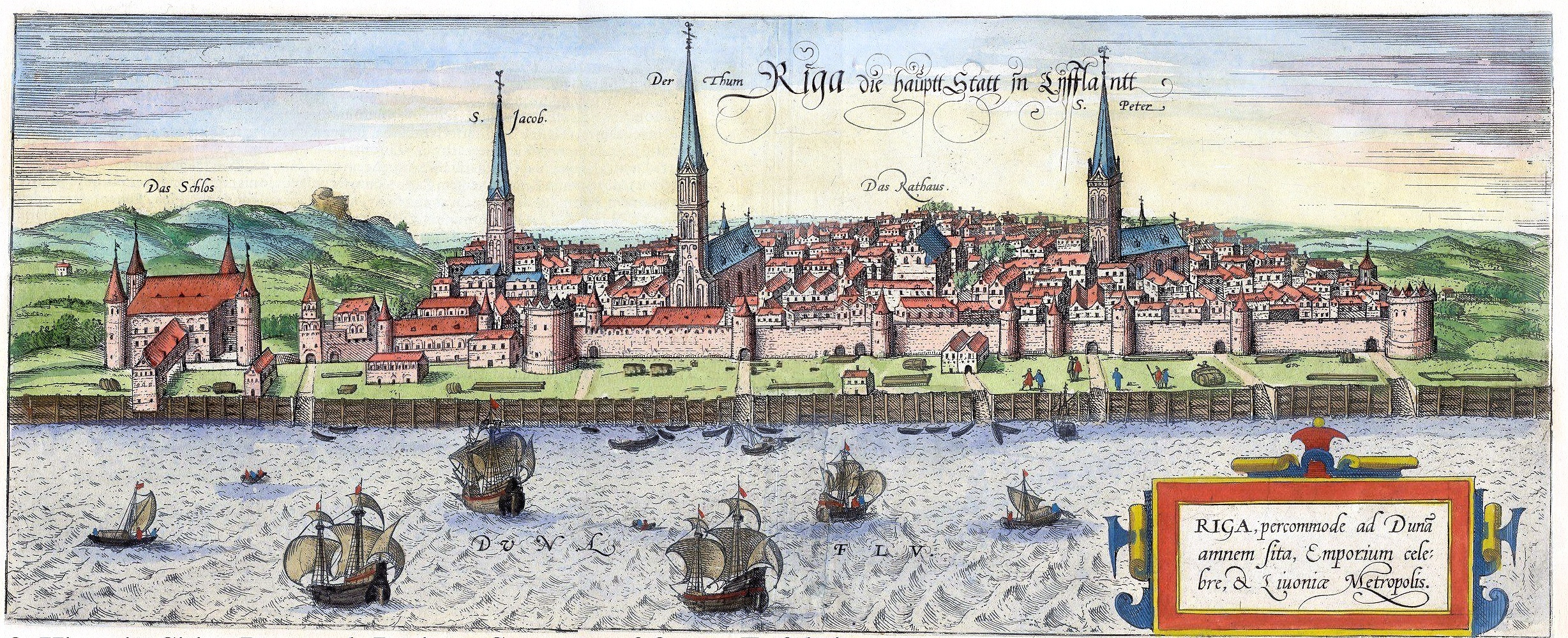 Panorama of Riga, 1572, Paper, copperplate. 16,3x40,7 cm “Riga, Percommode ad Duna Amnem Sita, Emporium Celebre, et Livoniae Metropolis,”